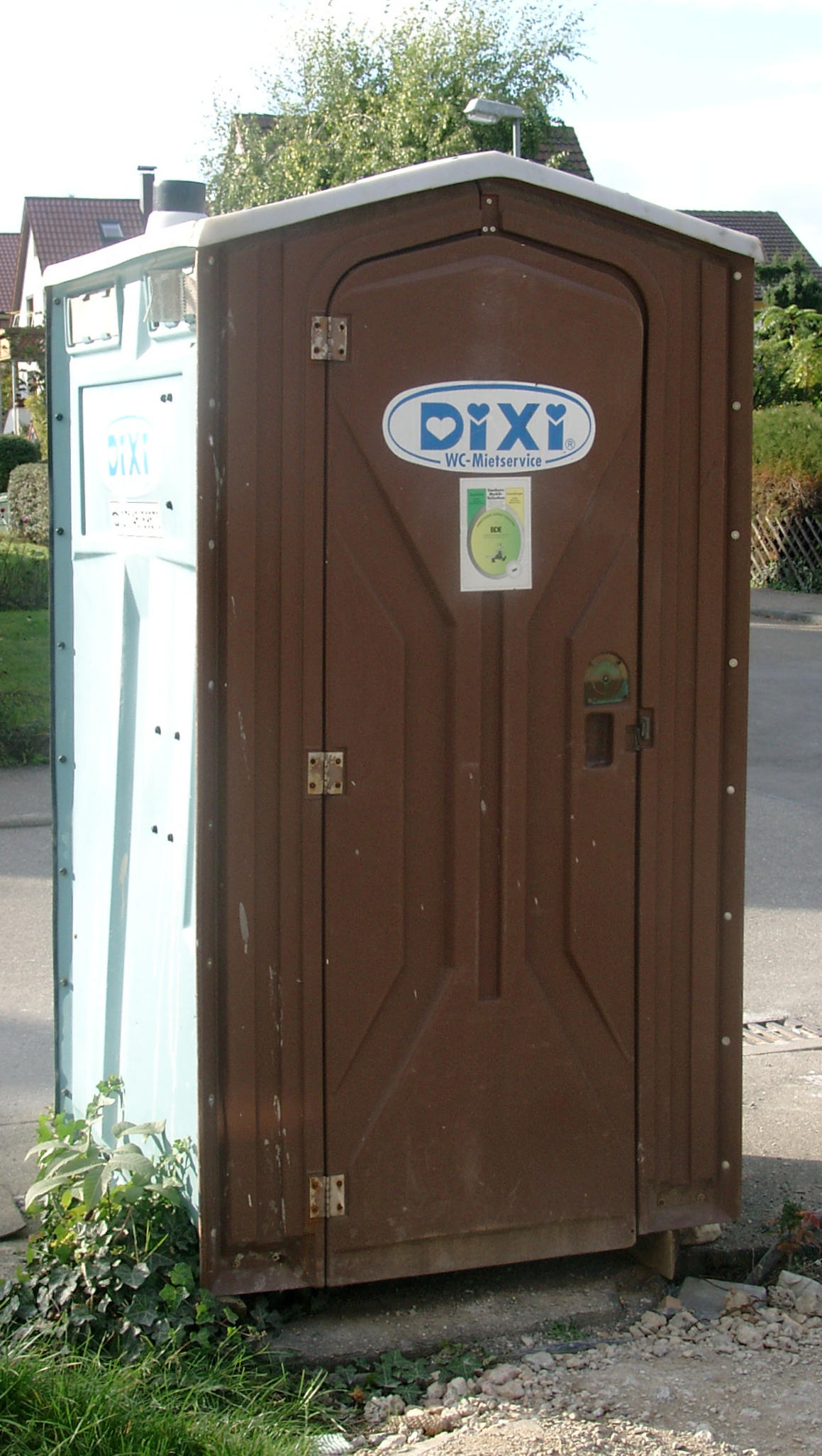 Portable toilet made by TOI TOI & DIXI Sanitärsysteme GmbH.